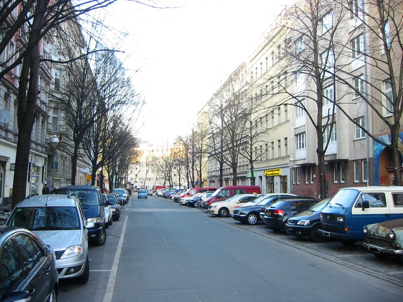 Schönleinstraße in Berlin-Kreuzberg (Germany)